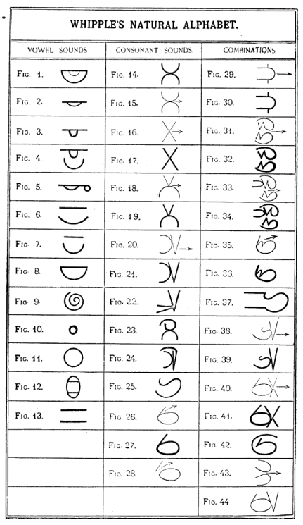 These pictograms were designed by Zerah C. Whipple to represent the mouth positions and movements used in making various spoken sounds, in order to help the deaf learn to pronounce words correctly by spelling words as phonetic pictograms.